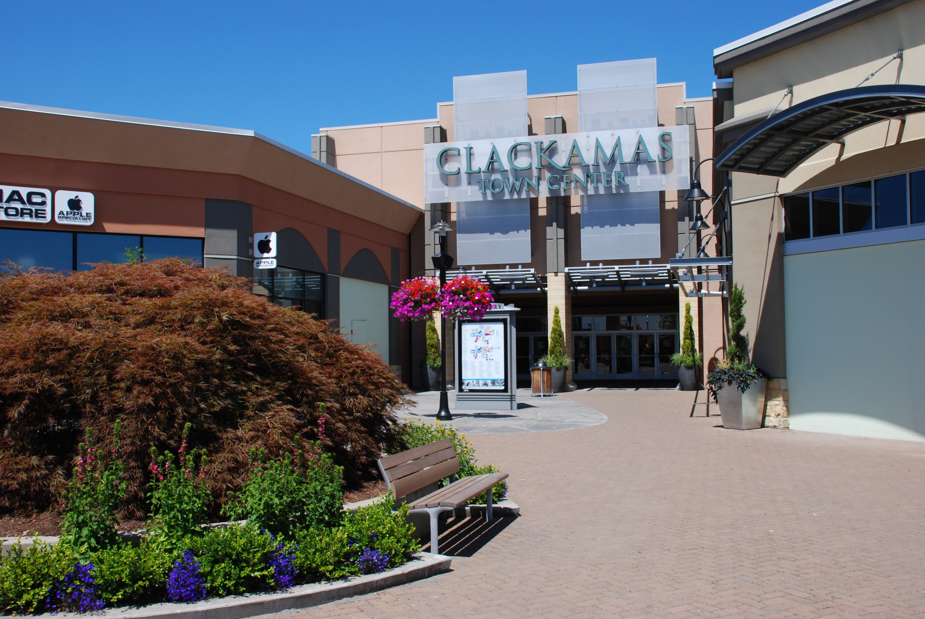 The south-central entrance to the Clackamas Town Center mall. The mall is located in the unincorporated Clackamas area, within the Portland, Oregon metropolitan area.